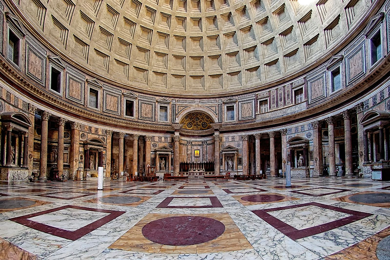 Pantheon inside.